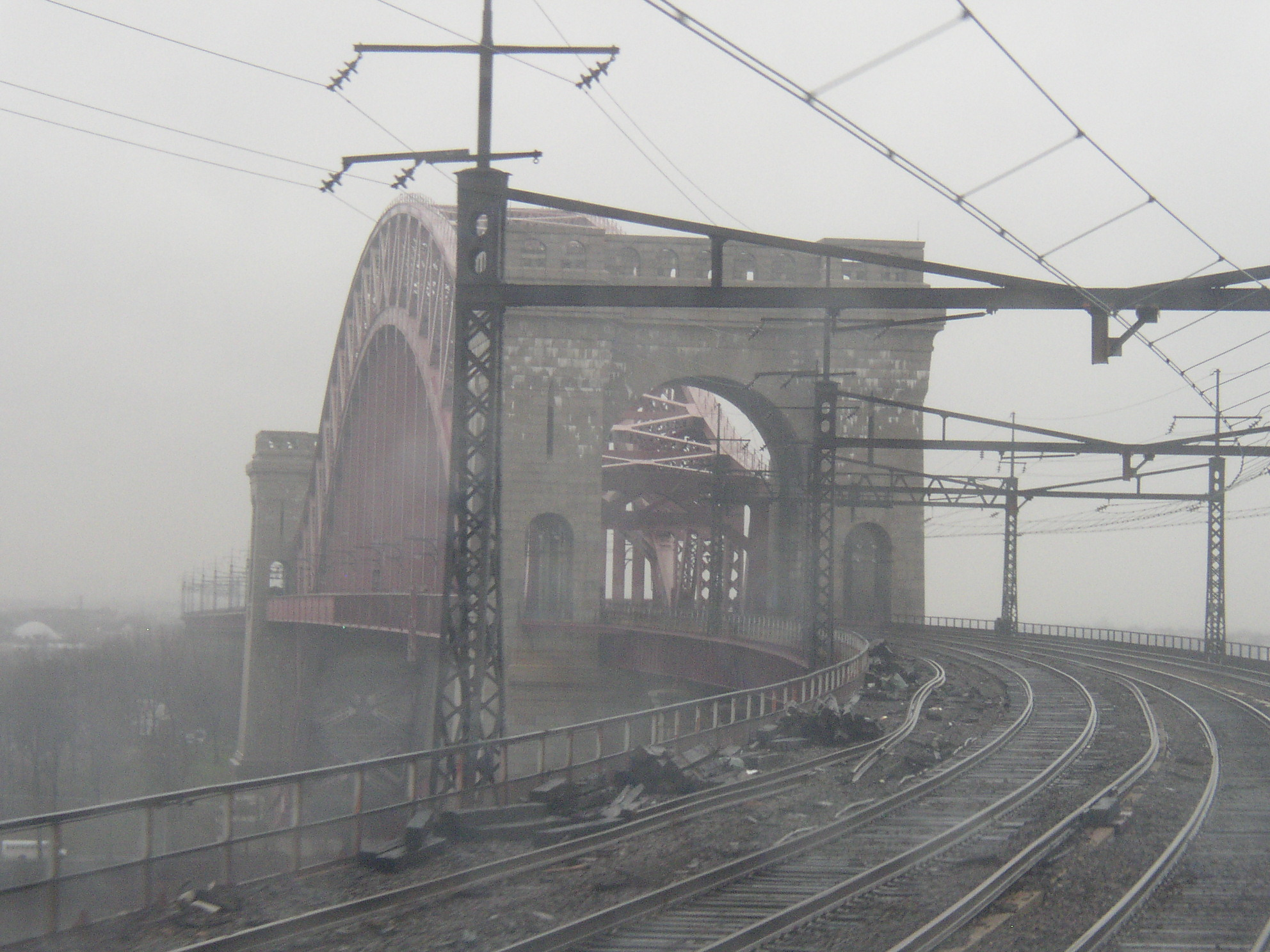 Picture of Hell Gate Bridge's north approach from the cab of an Amtrak Acela train